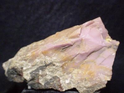 Sussexite Locality: Sterling Mine, Sterling Hill, Ogdensburg, Franklin Mining District, Sussex County, New Jersey, USA (Locality at ) An attractive mass of waxy, lavender/pink sussexite, from the type locality for the species. This specimen is from the North Orebody portion of the mine. This material is very odd, and feels like talc when rubbed. 7 x 4 x 3.5 cm.